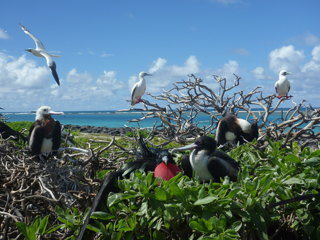 Redfooted boobies and great frigatebirds Hawaiian Islands National Wildlife Refuge Photo: Sarah Youngren, USFWS Pres. Teddy Roosevelt sent in the U.S. Marines to protect seabirds from plume and egg hunters in a vast swath of the Pacific, and in 1909 he gave them official wildlife conservation status as a wildlife refuge.